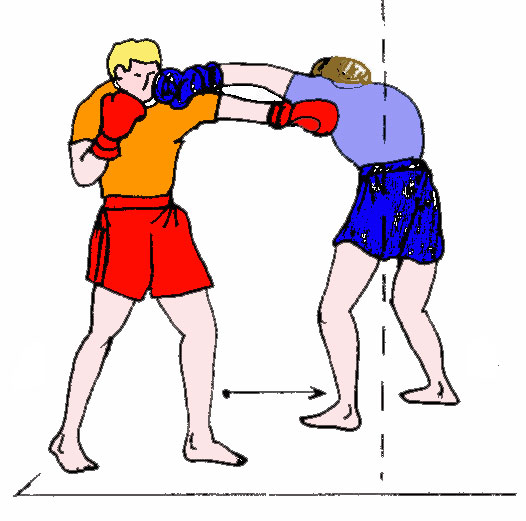 Crosscounter